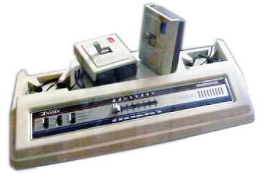 "Magnavox Odyssey 4000" videogame console Ponk-like